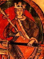 Malcolm IV of Scotland